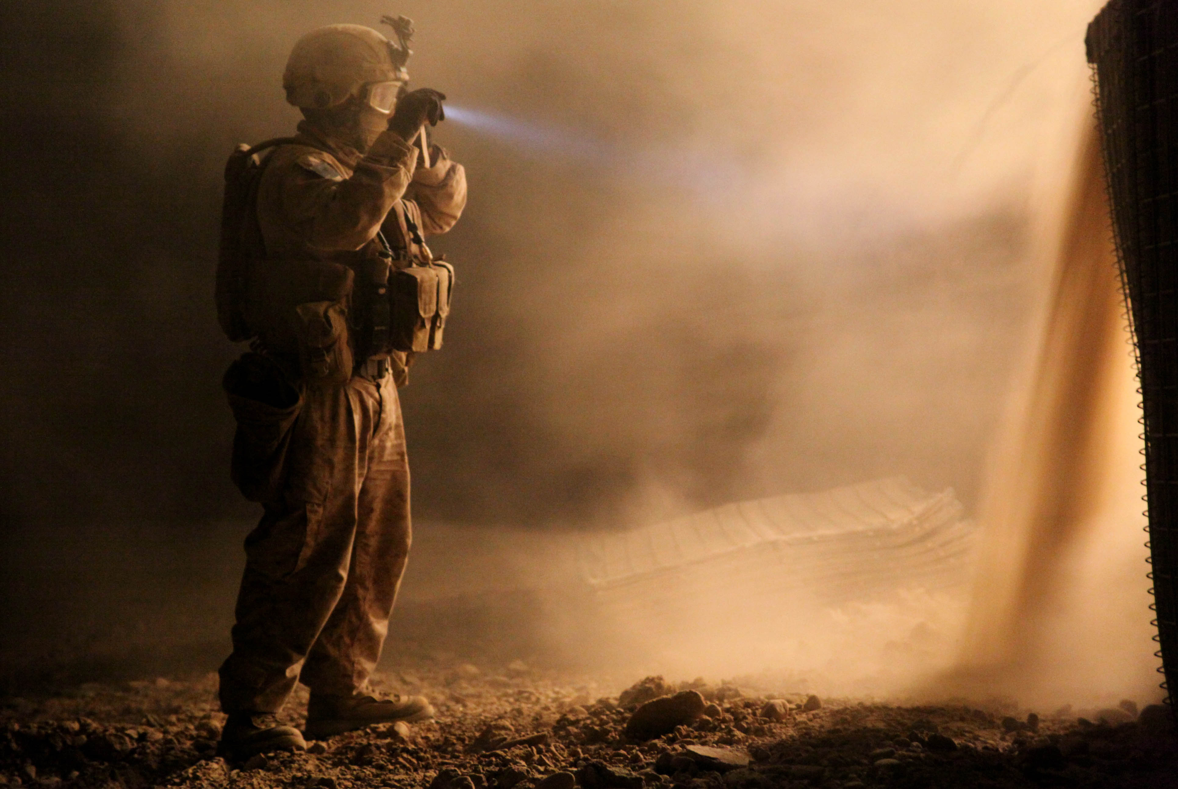 U.S. Marine Corps Cpl. Matthew Ortiz, a team leader with 1st Combat Engineer Battalion, 1st Marine Division (Forward), directs a TRAM vehicle that is filling a HESCO barrier with dirt at a small combat outpost in Musa Qala, Afghanistan, on Nov. 13, 2010. Marine engineers constructed the new patrol base for Afghan Security Forces.